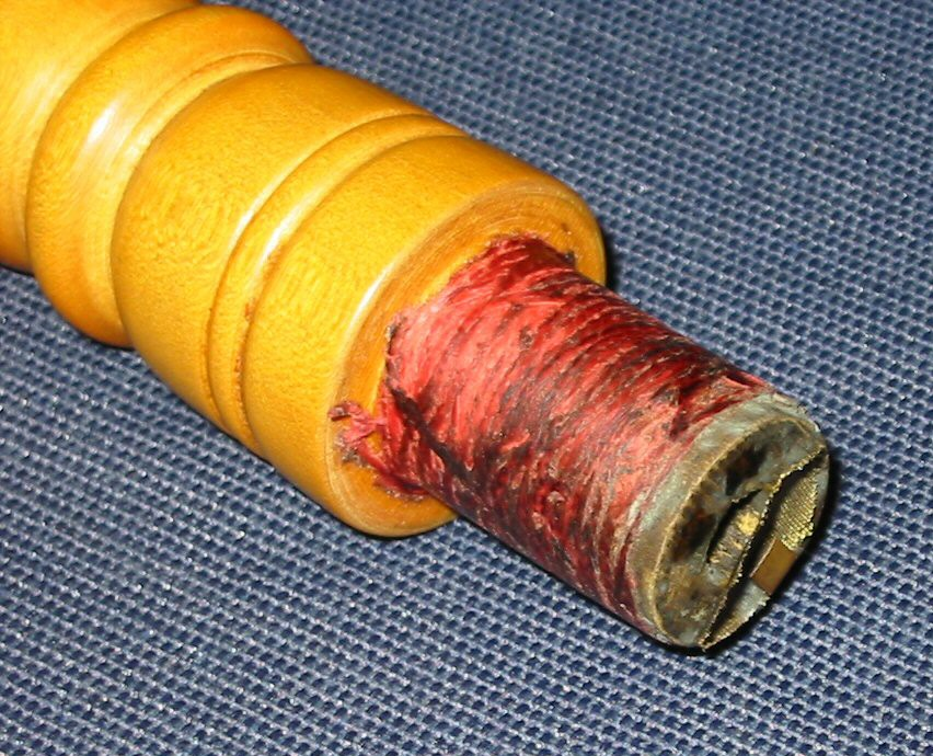 The one-way valve on the baghet mouthpiece